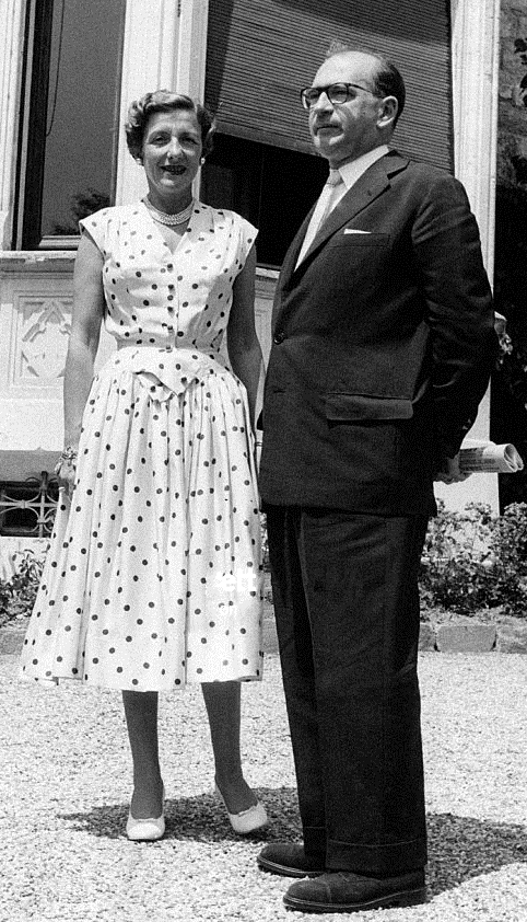 President of the French Council Edgar Faure posing beside his wife Lucie Meyer at villa Le Prevorzier, their abode during the Big Four Conference. Geneva, July 1955